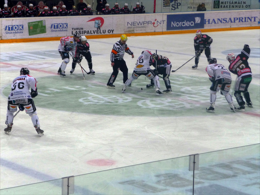 Ice-hockey match TPS-JYP in Finland